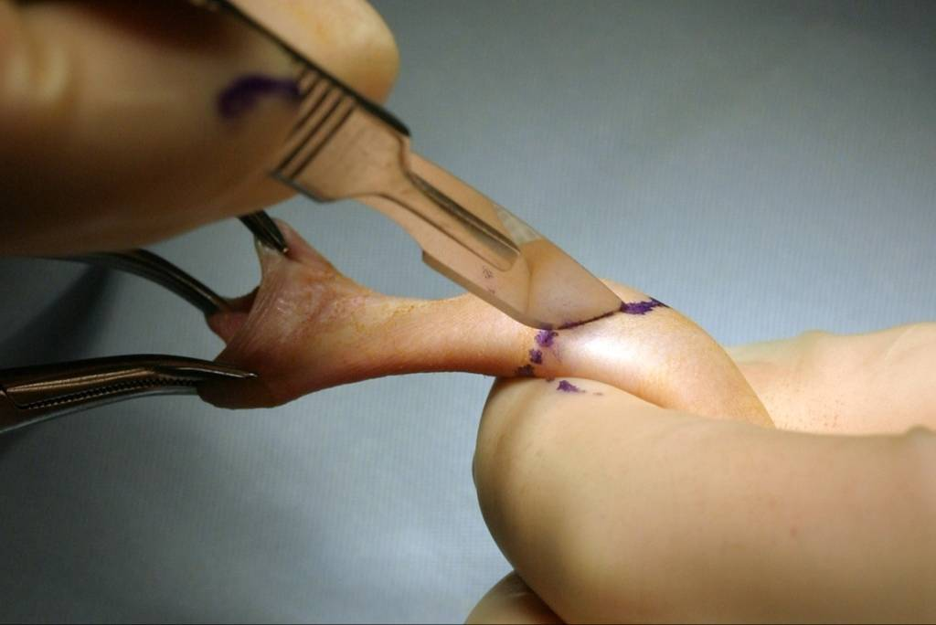 circumcision of a child, legal, ritual, right